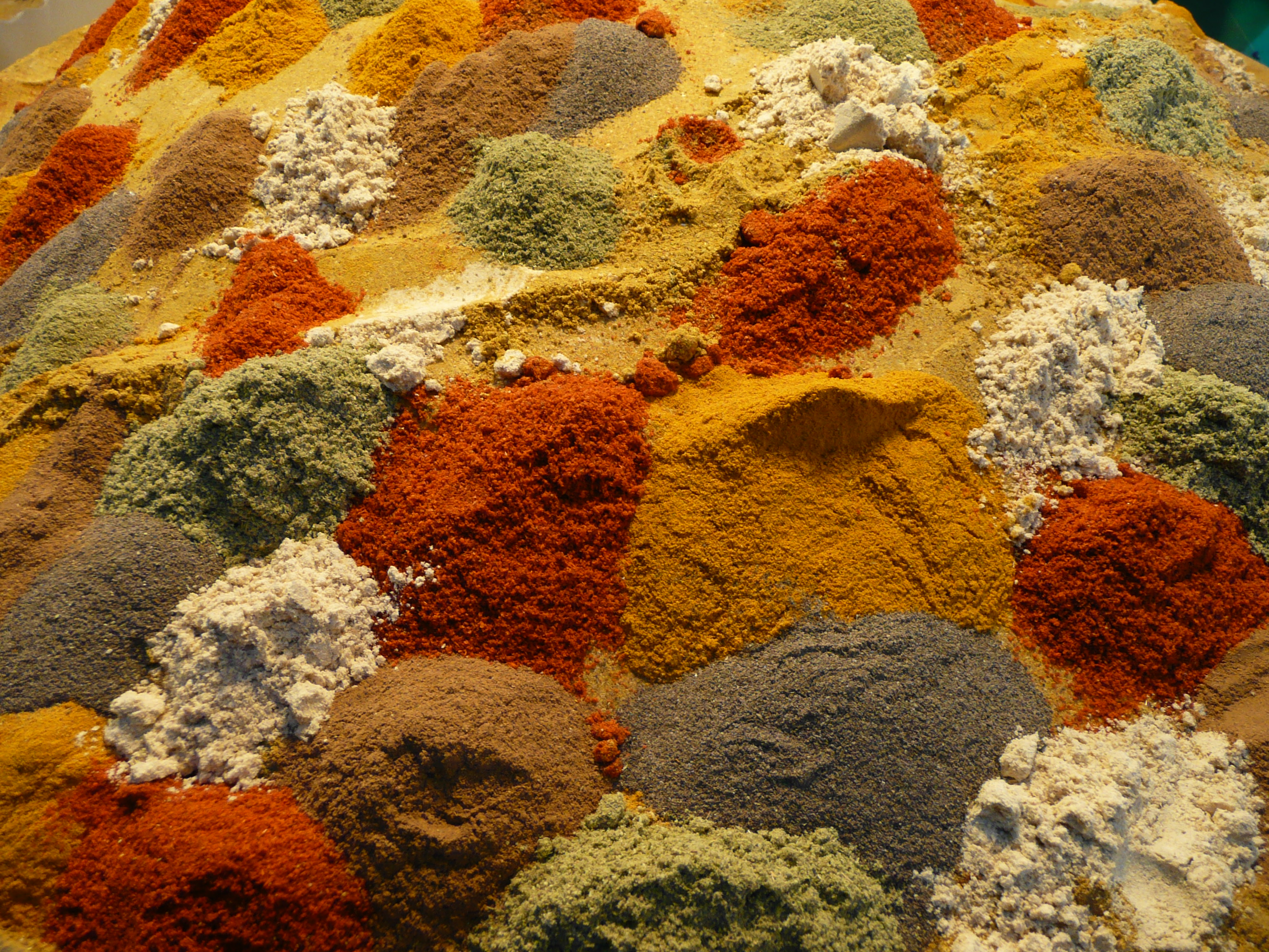 Photographs from Isfahan, Iran